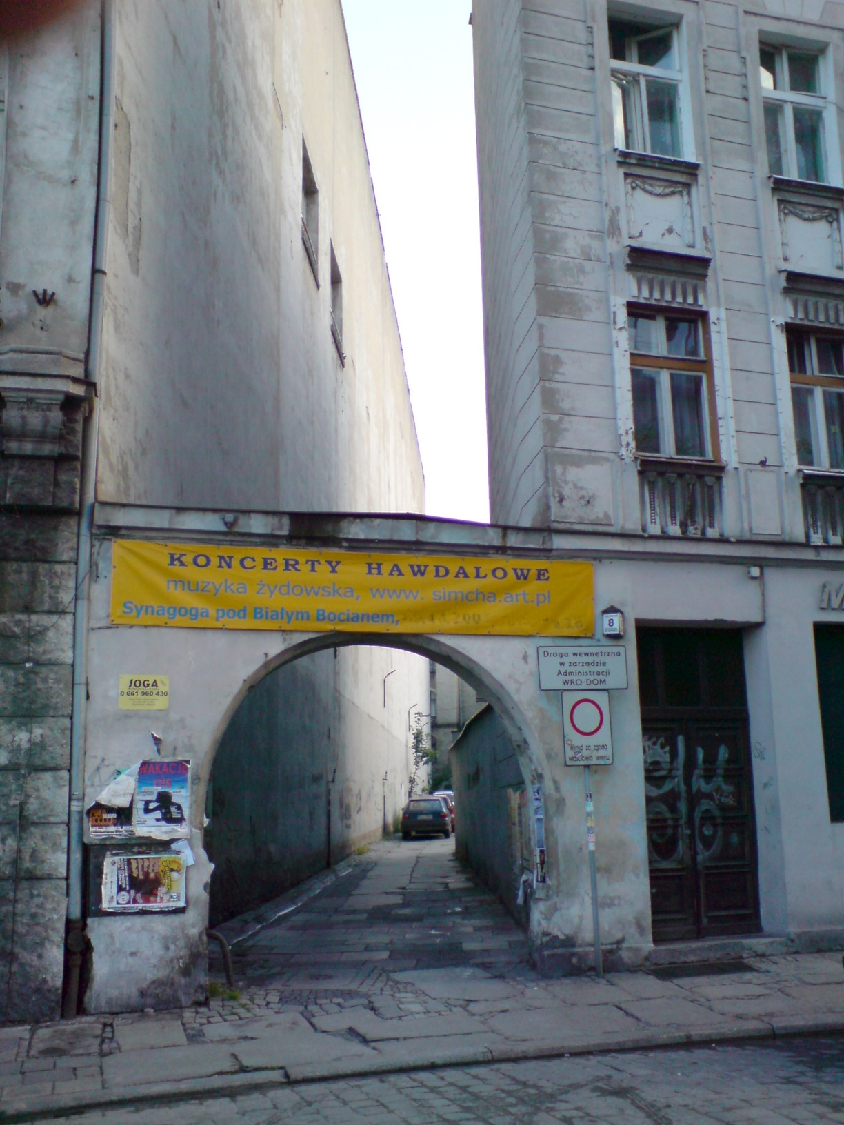 Wrocław, St. Anthony street N° 8 (the gate to former old Jewish Hospital place)